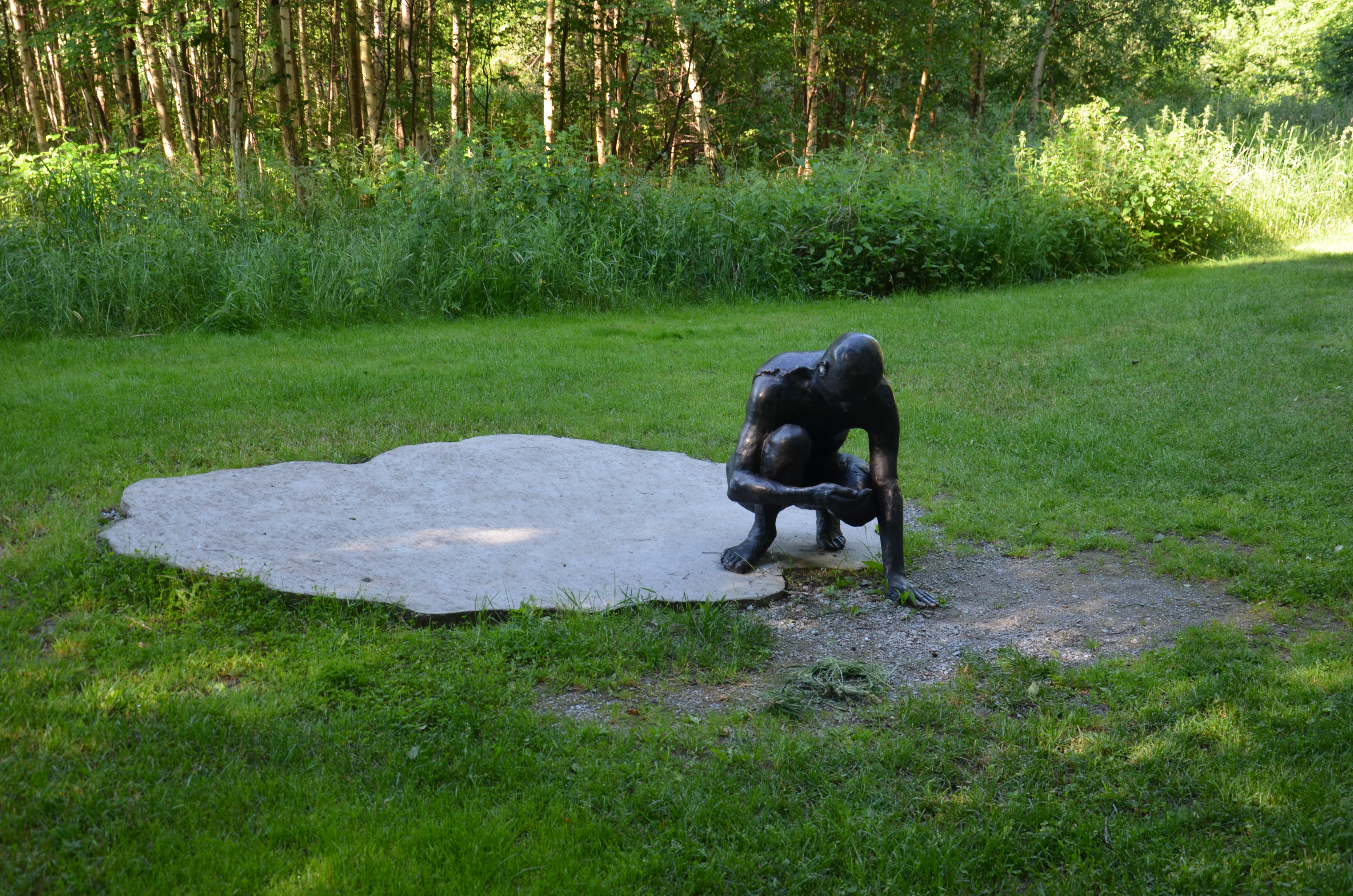 Sculpture by Stefan Rydéen: Mellan slump och nödvändighet brons och betong, 2002, in sculpture park Lilla Å-promenaden in Örebro, Sweden